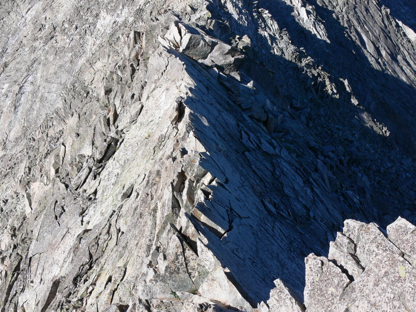 Capitol Peak Knife Edge